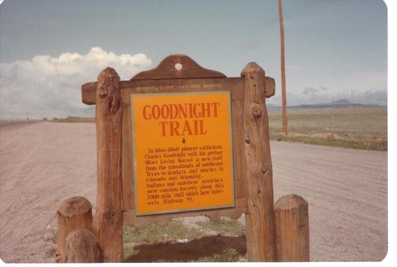 I took photo in 1983.